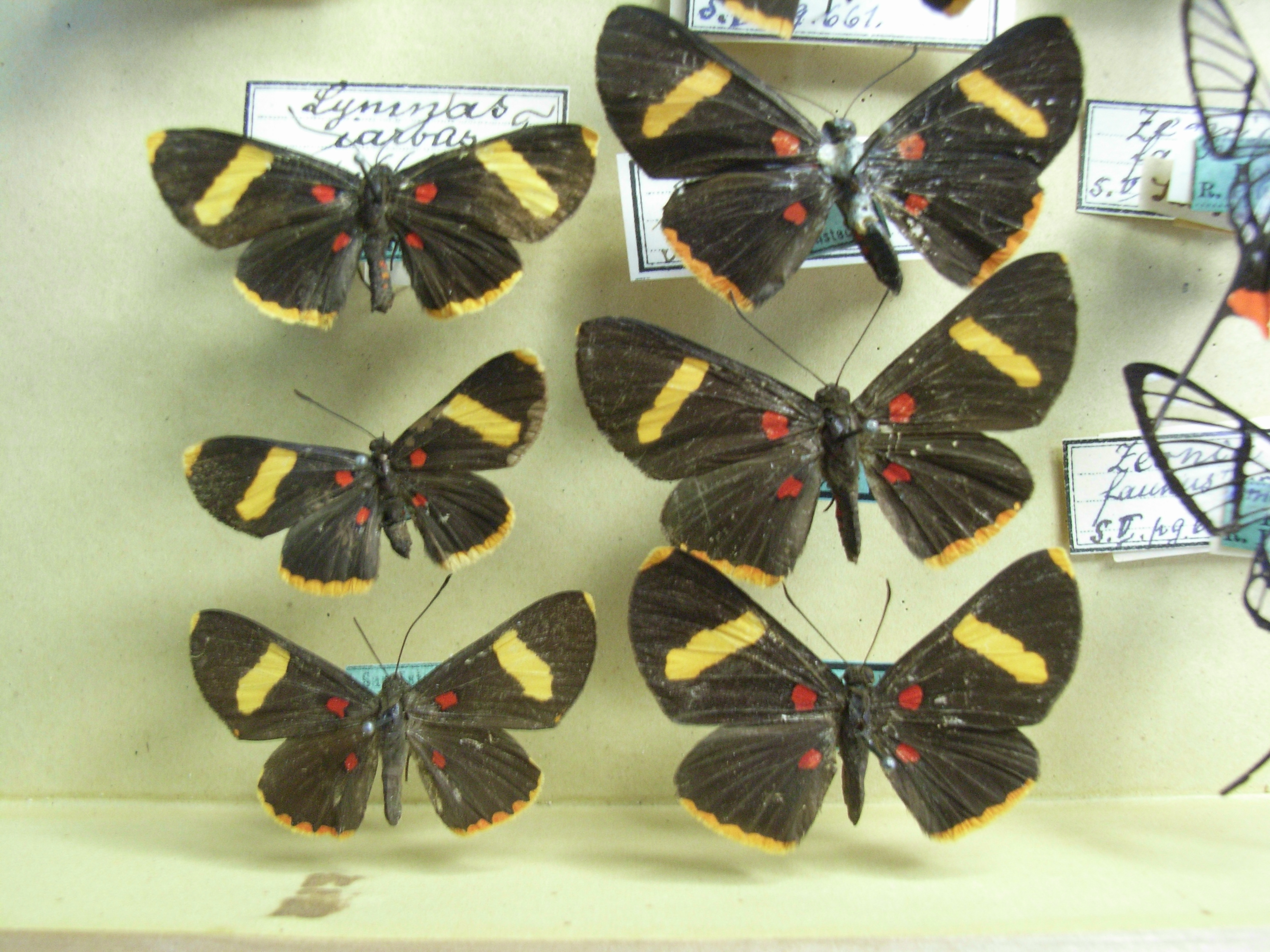 Melanis electron (Fabricius, 1793) Riodinidae Ex coll. Museum Wiesbaden